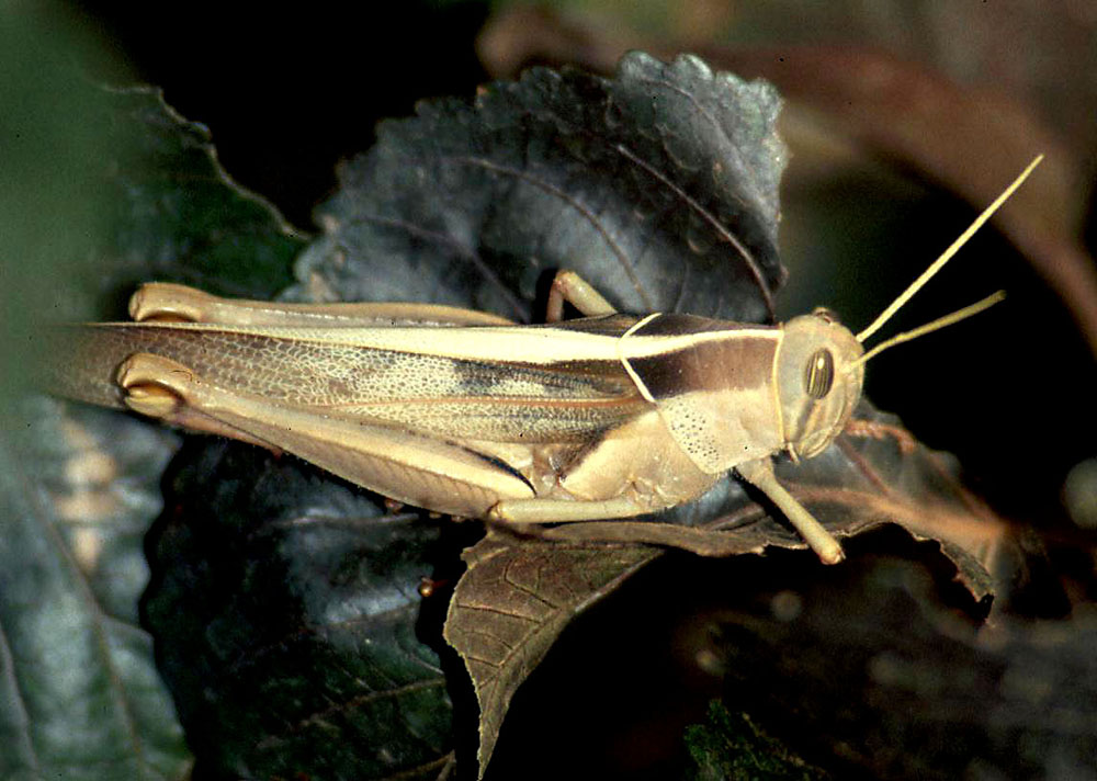 Adult Acanthacris ruficornis citrina photographed by Christiaan Kooyman on 10 August 1994 in Niamey, Niger.